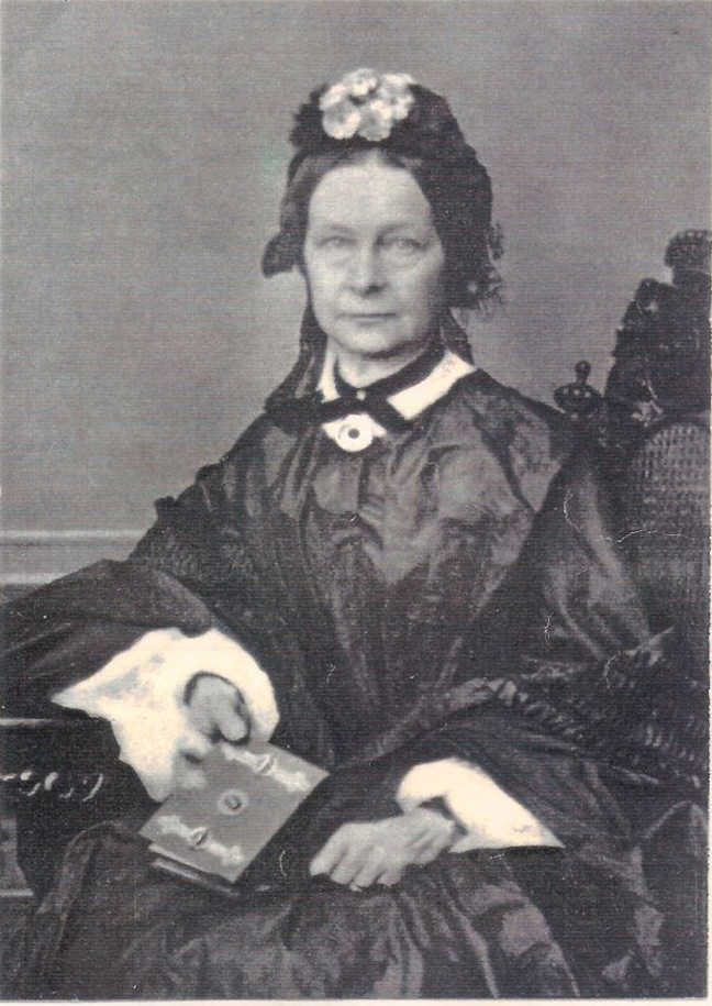 Photo of Amalie Wilhelmine Henriette Ernestine Bianca von Forcade de Biaix ancestor of the von Randow family in Brazil